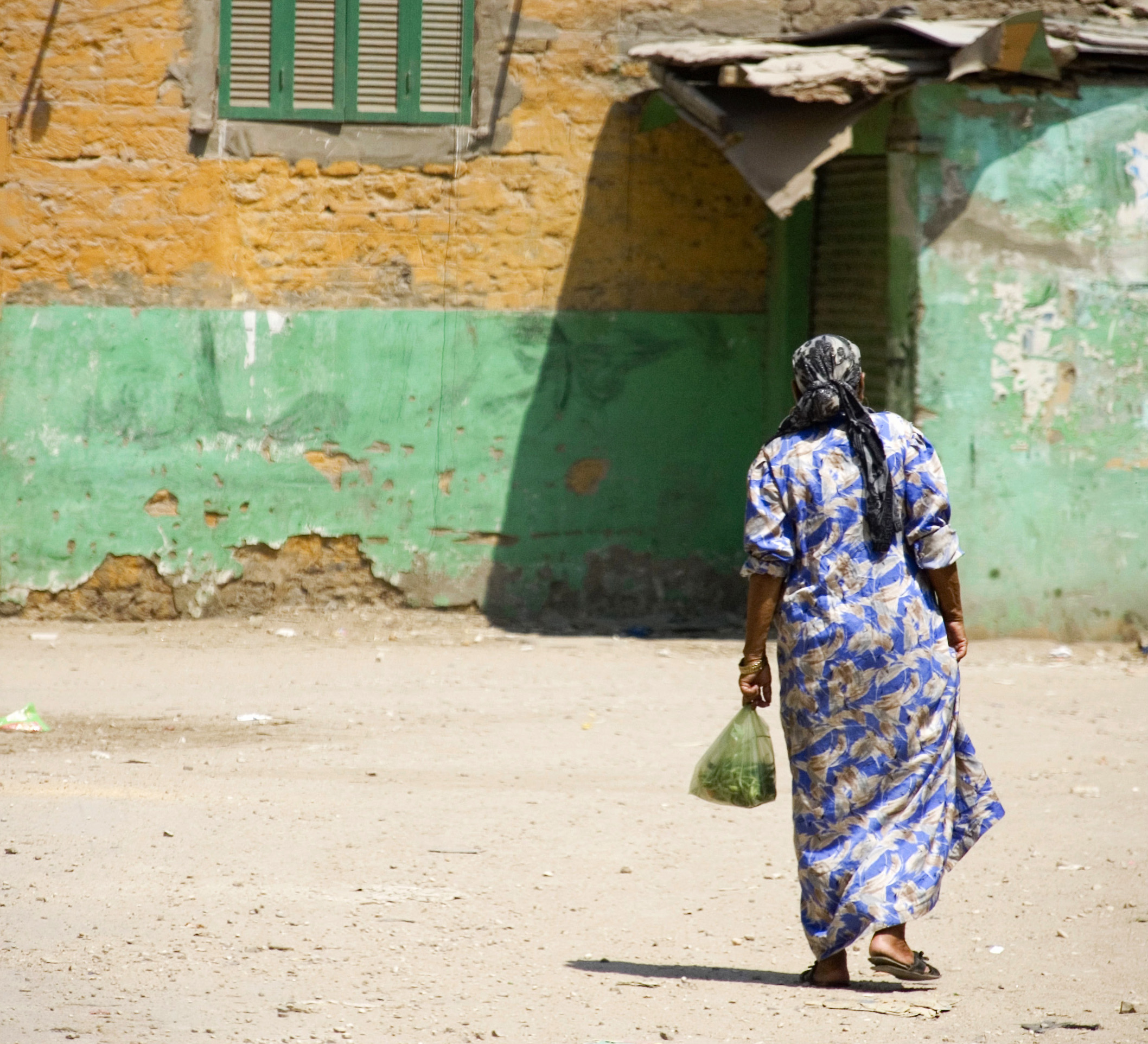 This is a detail of a larger photograph of where we got lost in Cairo south of Bur Said.